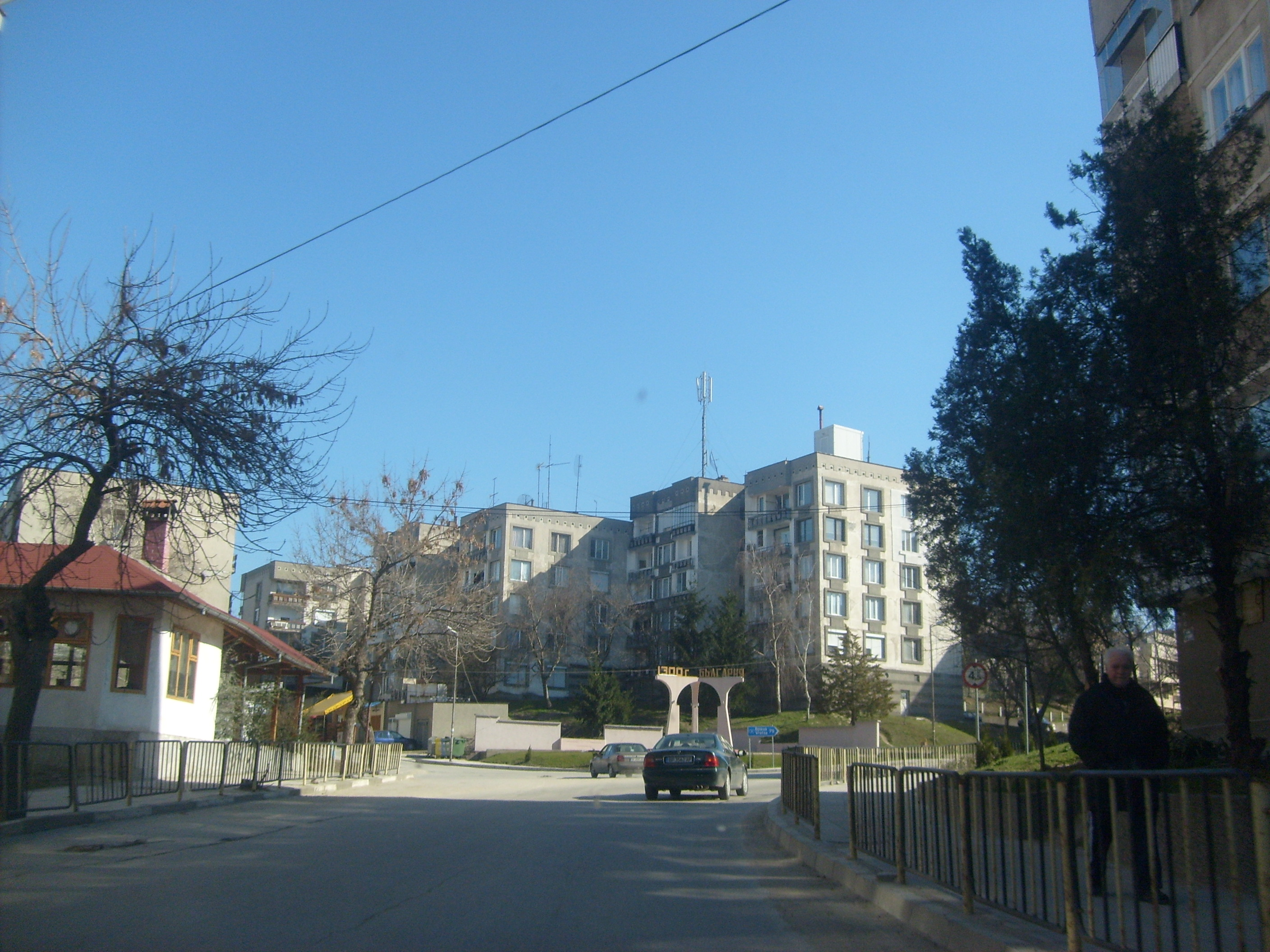 Oryahovo, a town on the Bulgarian bank of the Danube